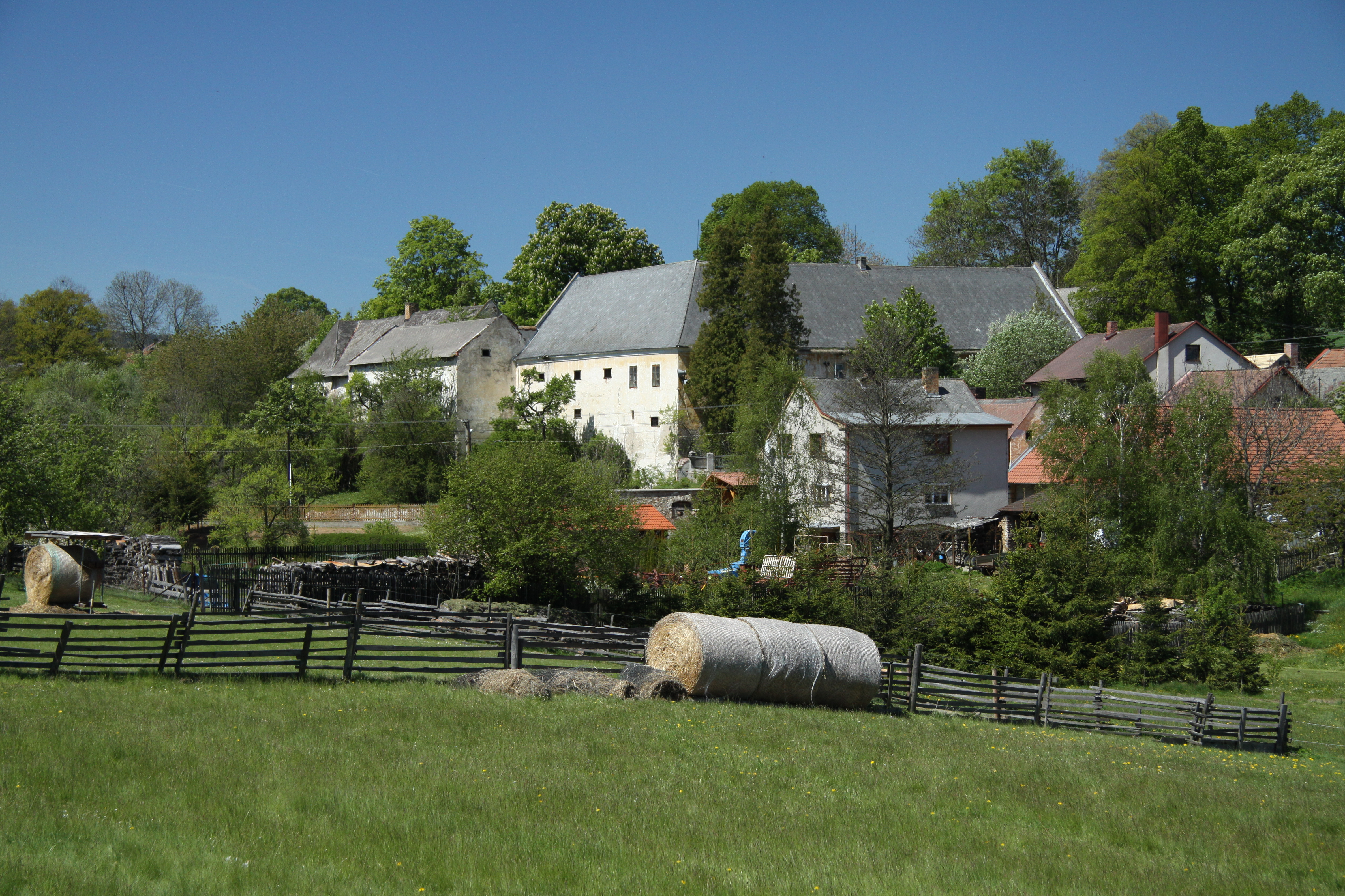 Přečín village, part of Vacov village in Prachatice District, Czech Republic